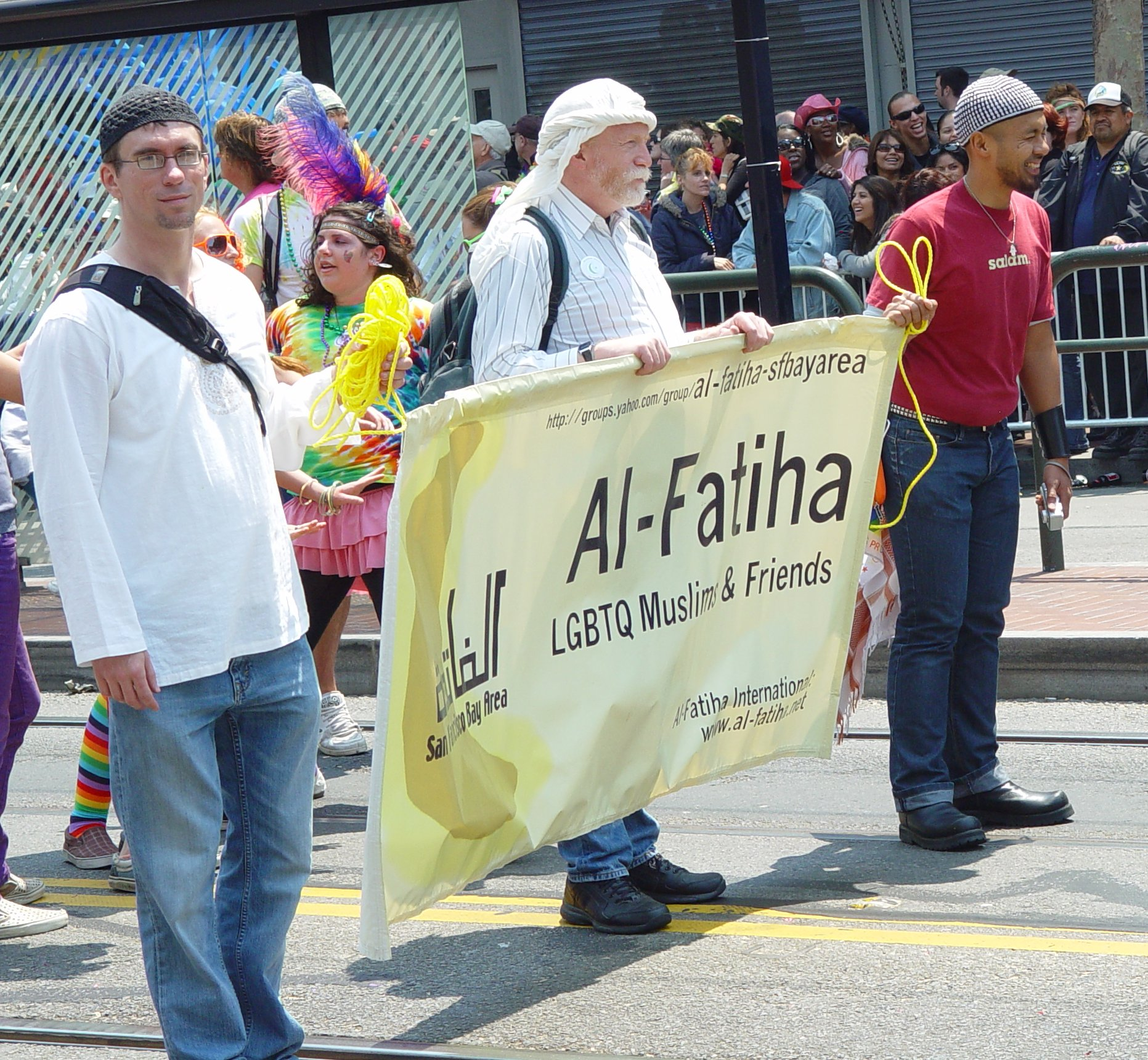 Al-Fatiha Muslim Gays - Gay Parade 2008 in San Francisco